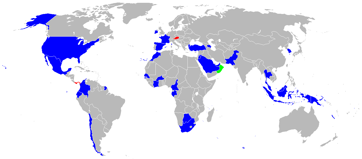 World operators of EADS CASA CN-235. Military operators in blue, only government operators in green, former operators in red.